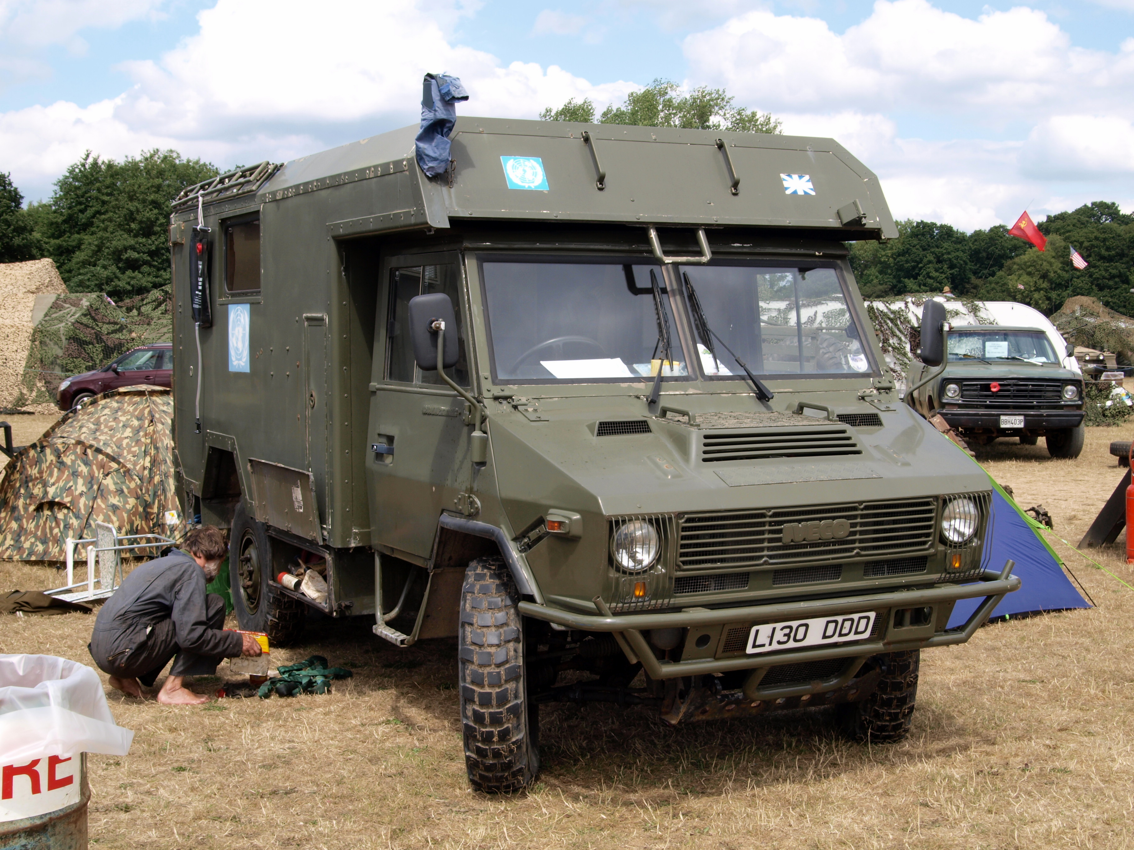 Iveco VM90 at W&P show 2010